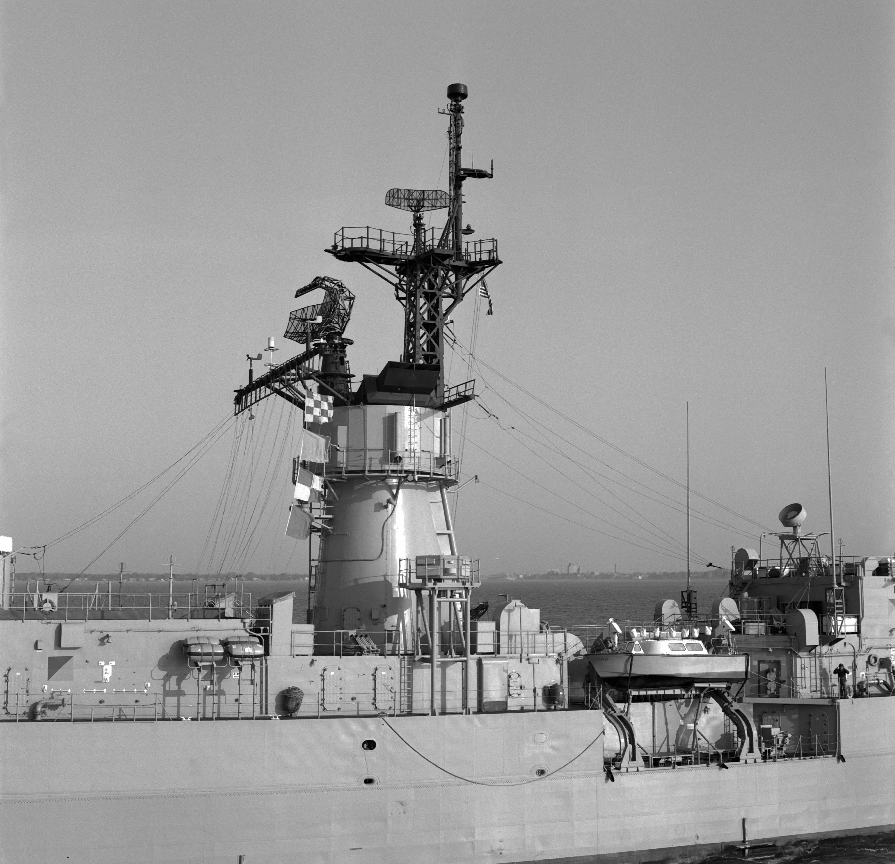 A view of the mack structure and surrounding area on the frigate USS DONALD B. BEARY (FF-1085). Location: HAMPTON ROADS, VIRGINIA (VA) UNITED STATES OF AMERICA (USA)